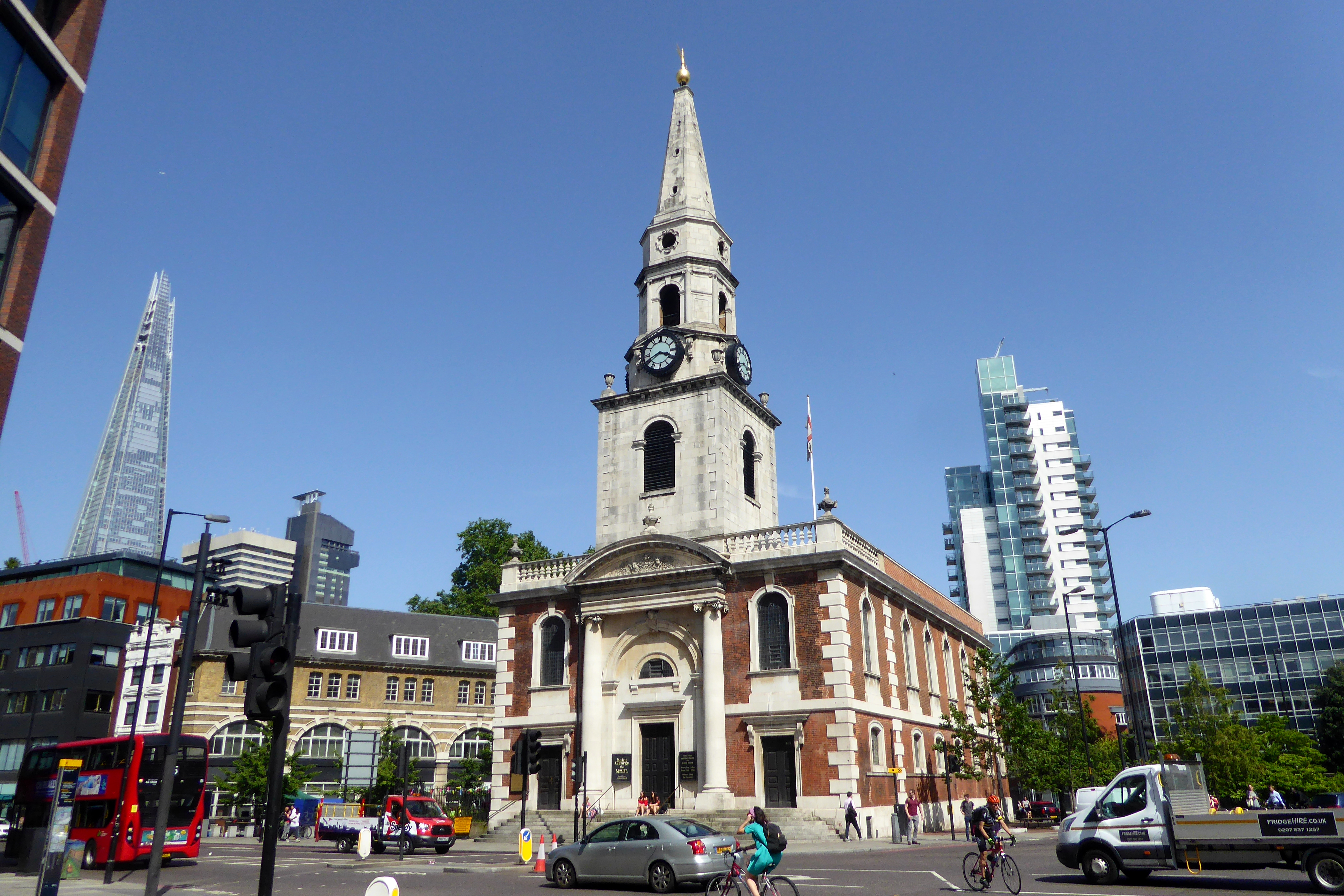 Landscape View of St George the Martyr's Church, Southwark